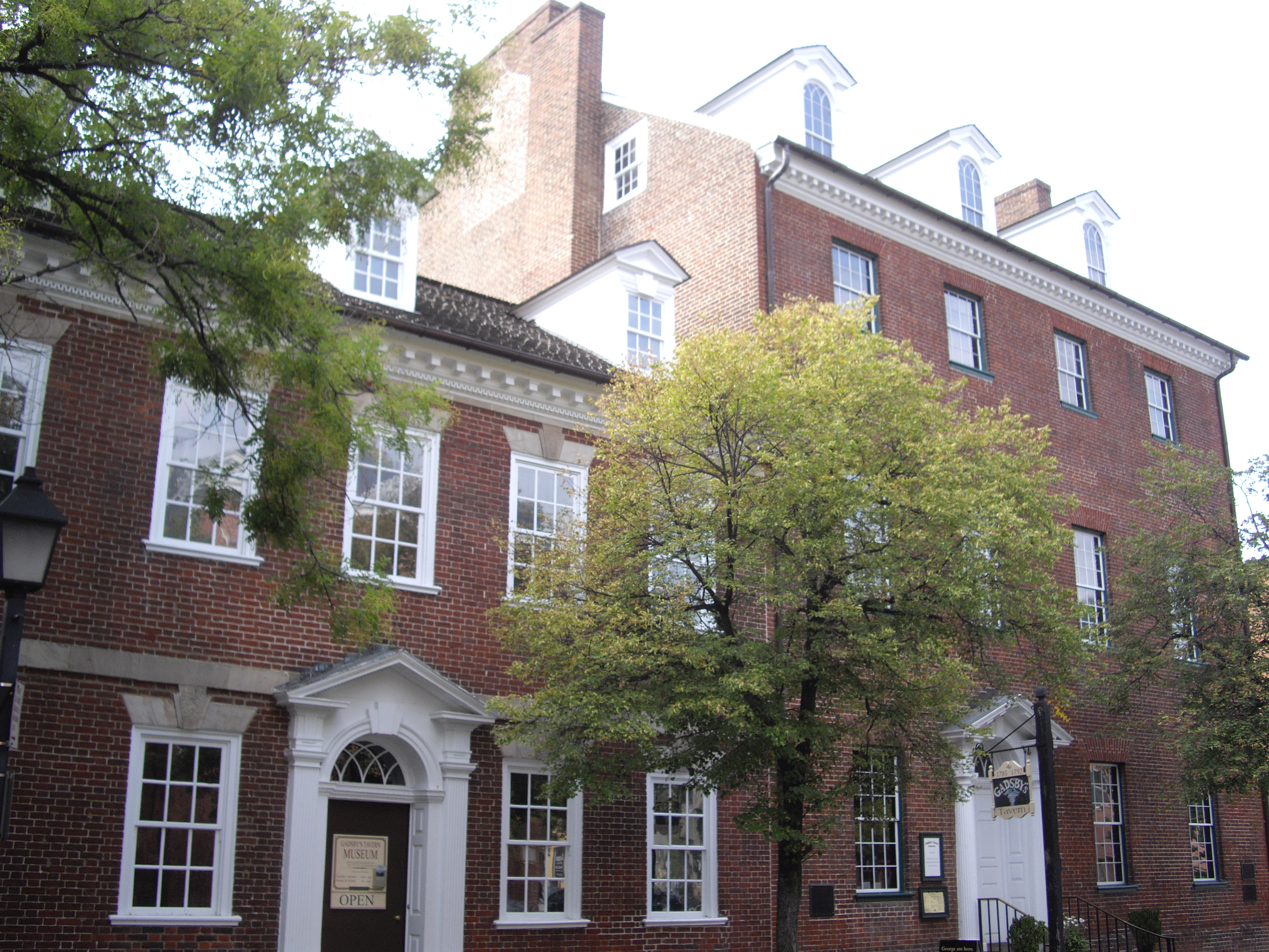 Gadsby's Tavern in Alexandria, VA